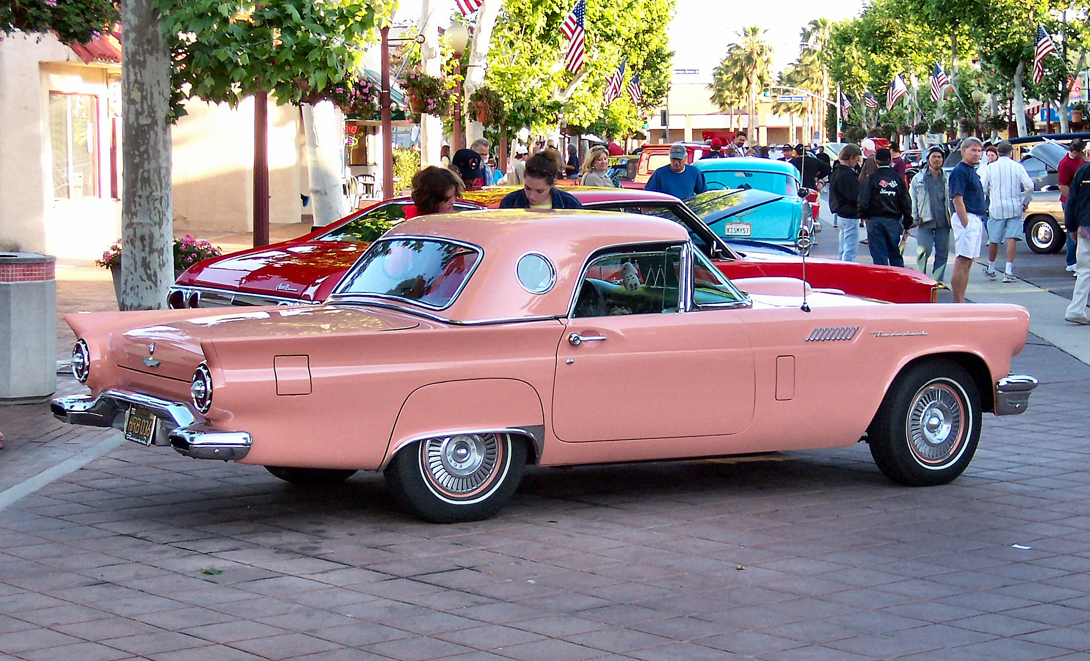 1957 Ford Thunderbird in Pink.